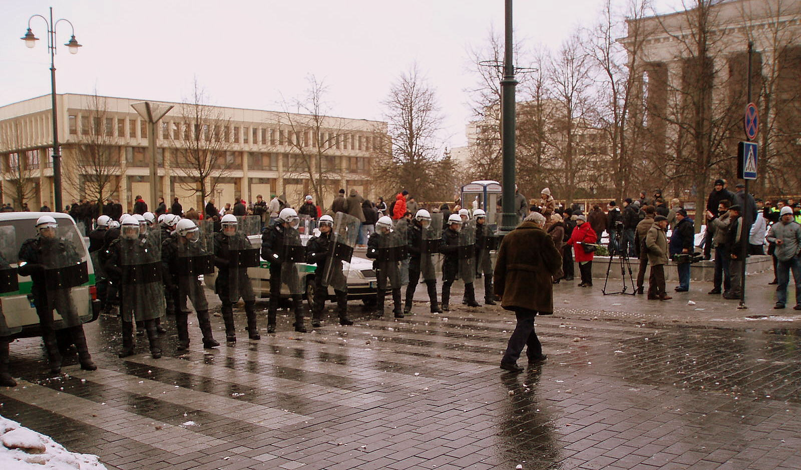 Police blockade during January 16 events